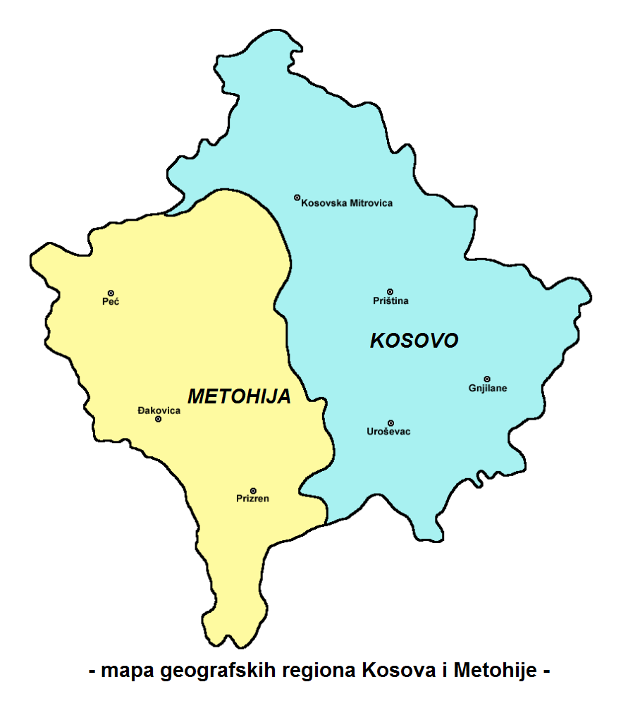 Map of geographical regions of Kosovo and Metohija - Kosovo and Metohija - Serbian language Latin script version.